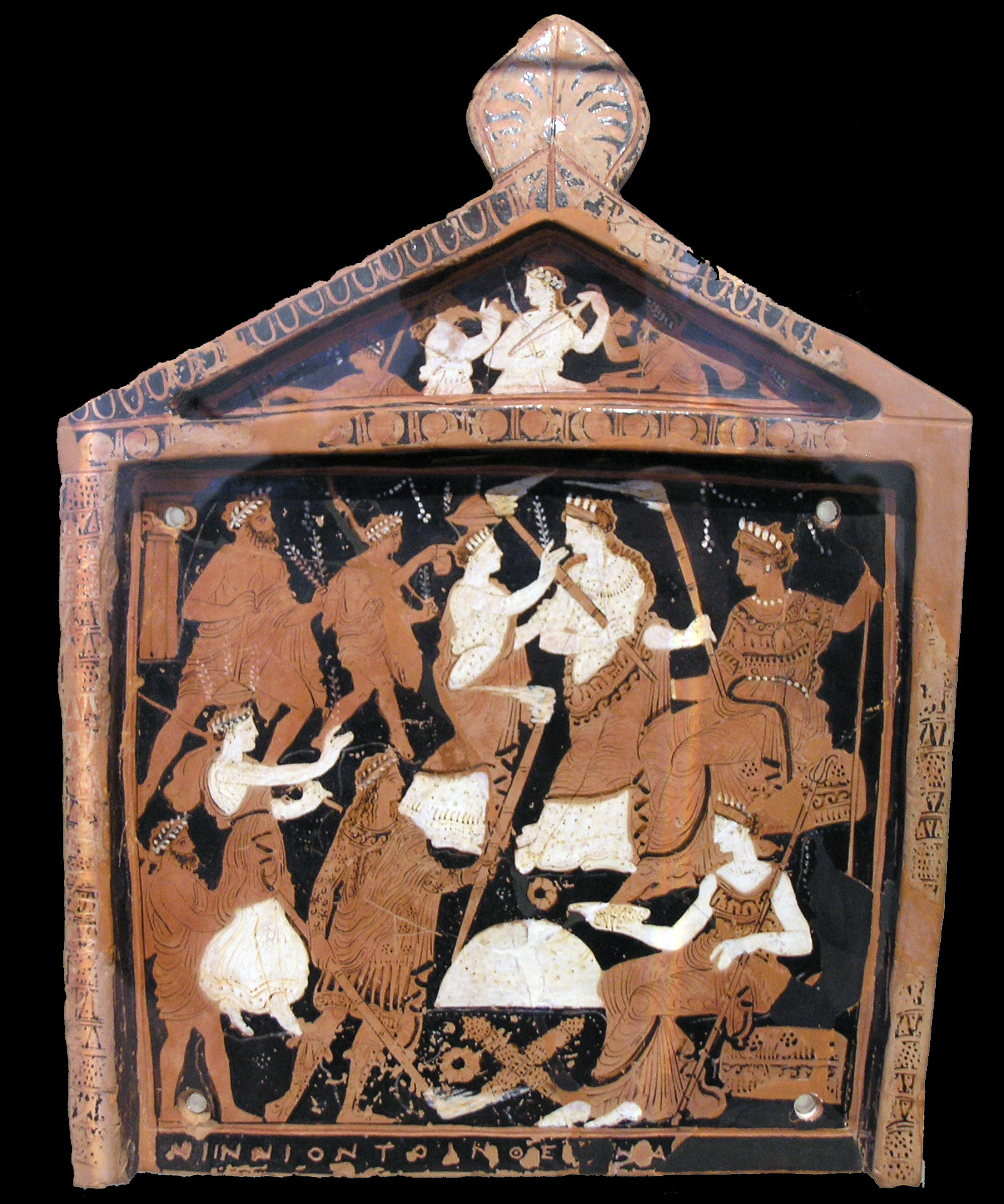 Votive plaque depicting elements of the Eleusinian Mysteries. National Archaeological Museum, Athens